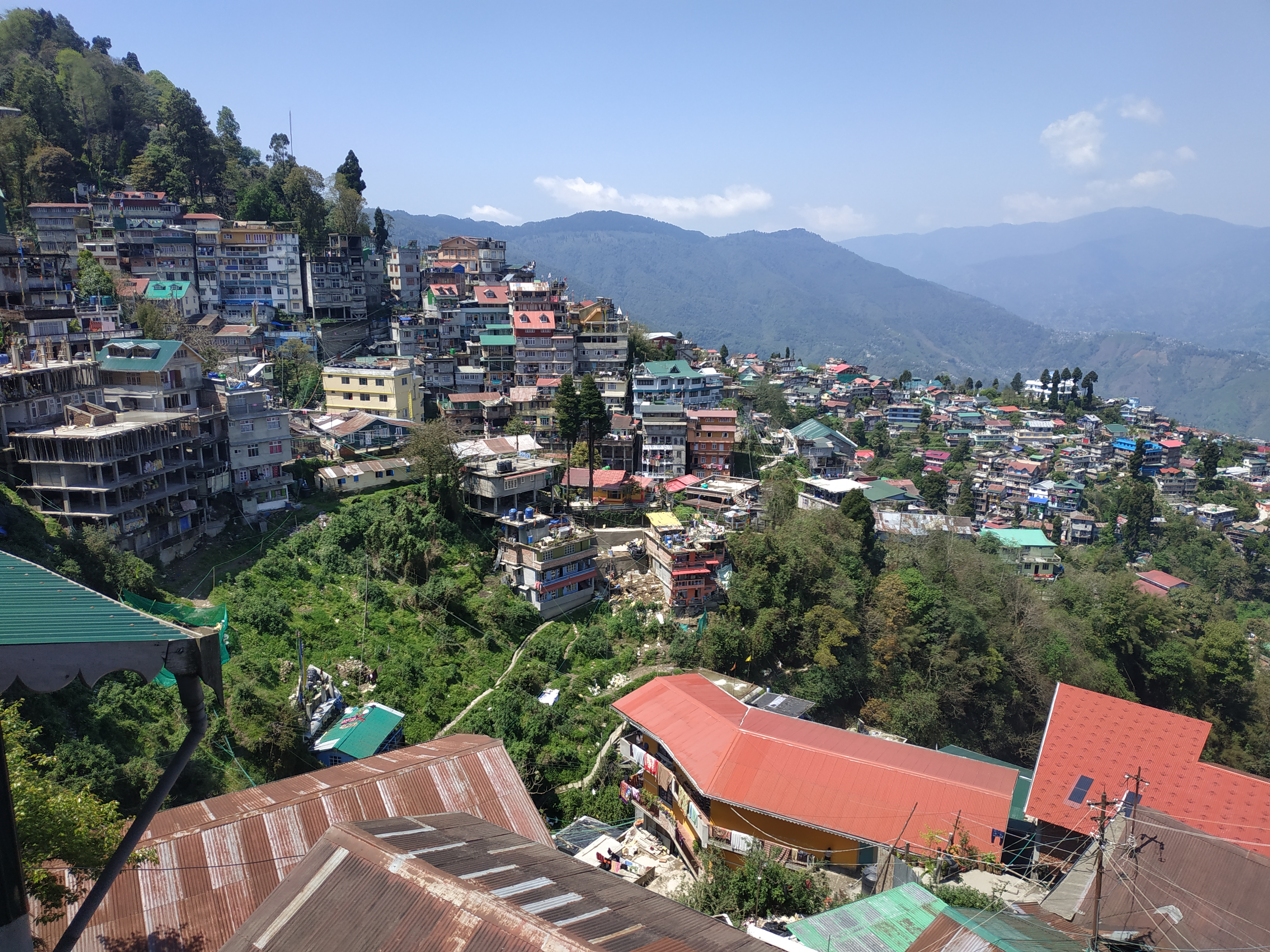 Roy Villa, a four-storied building at Lebong Cart Road, Darjeeling, West Bengal holds a special significance in India’s rich cultural tradition. In this heritage house, Sister Nivedita, the great disciple of Swami Vivekananda died on 13 October 1911.